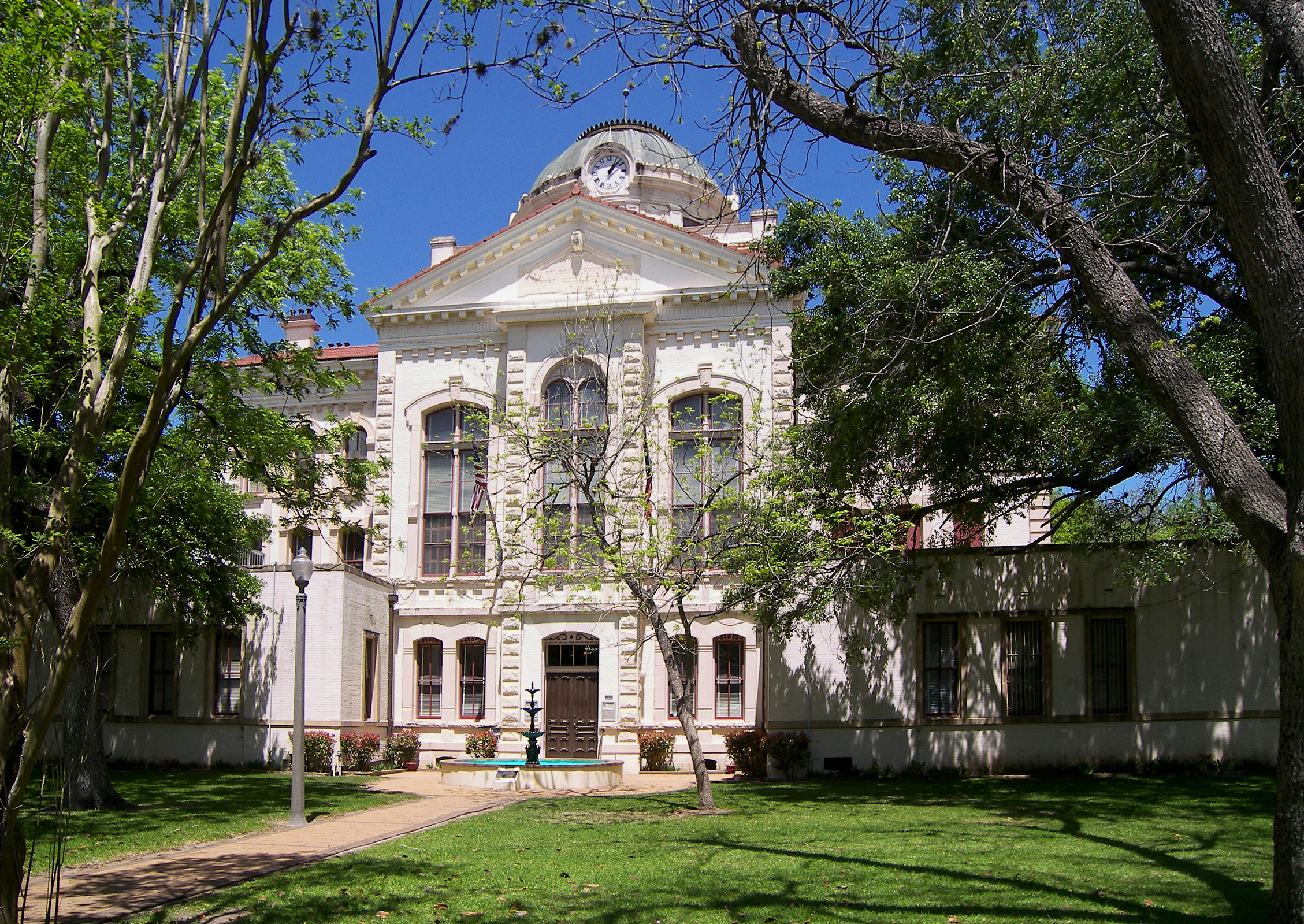 The Colorado County, Texas courthouse is a classical revival building erected in 1890-1891 in the form of a Greek cross. Designed by prominent Texas architect Eugene T. Heiner, the courthouse reflects the style of the period with its combination of French Second Empire, Renaissance Revival, and Italianate influences. The roof and tower of the courthouse were destroyed in a storm in 1909 and were replaced with the classical detailing and a center dome. The courthouse is located in Columbus, Texas, United States. The structure was designated a Recorded Texas Historic Landmark in 1969 and listed on the National Register of Historic Places on July 12, 1976.